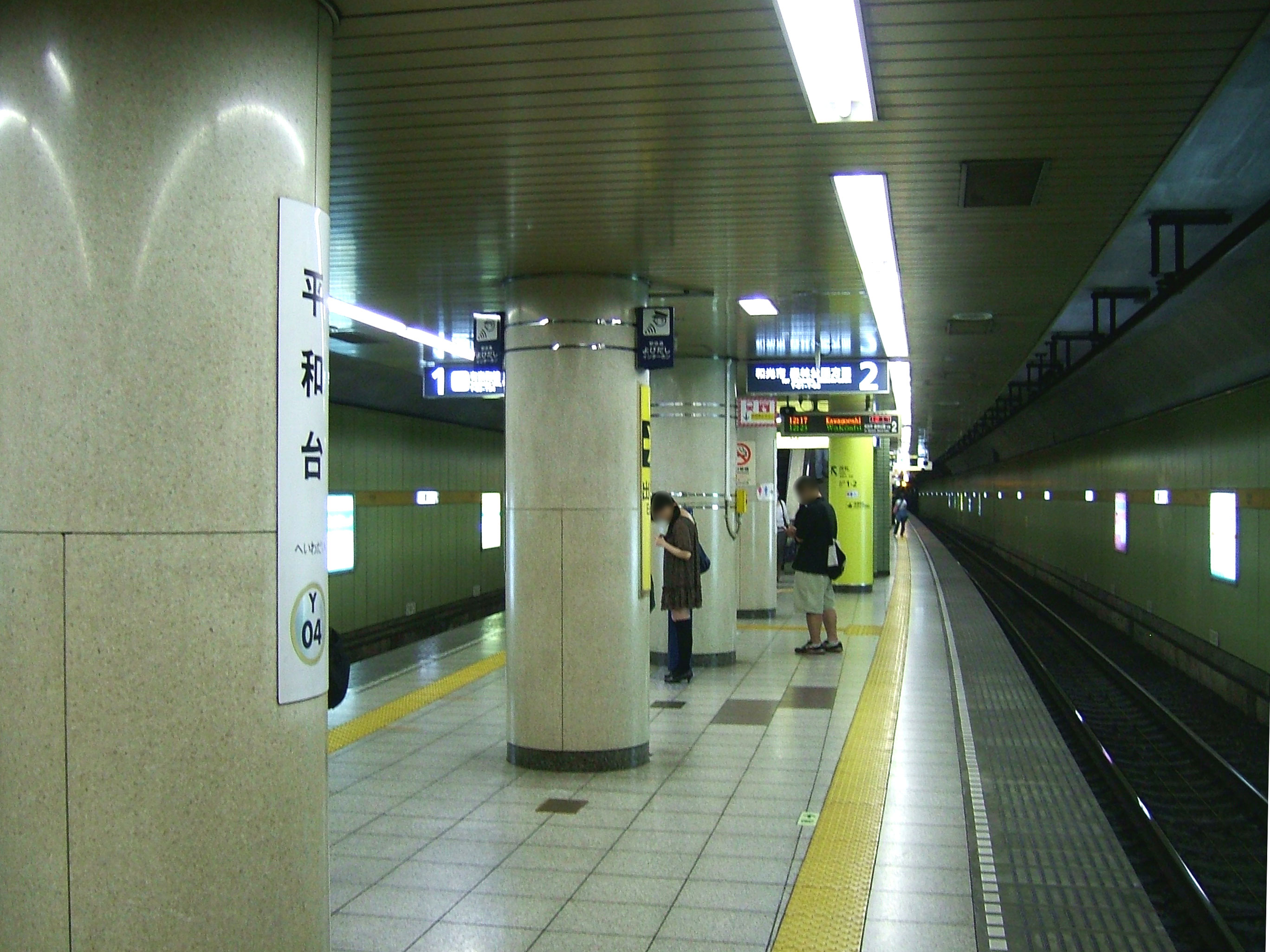 Heiwadai Station platform (Tokyo Metro Yūrakuchō Line, Fukutoshin Line)